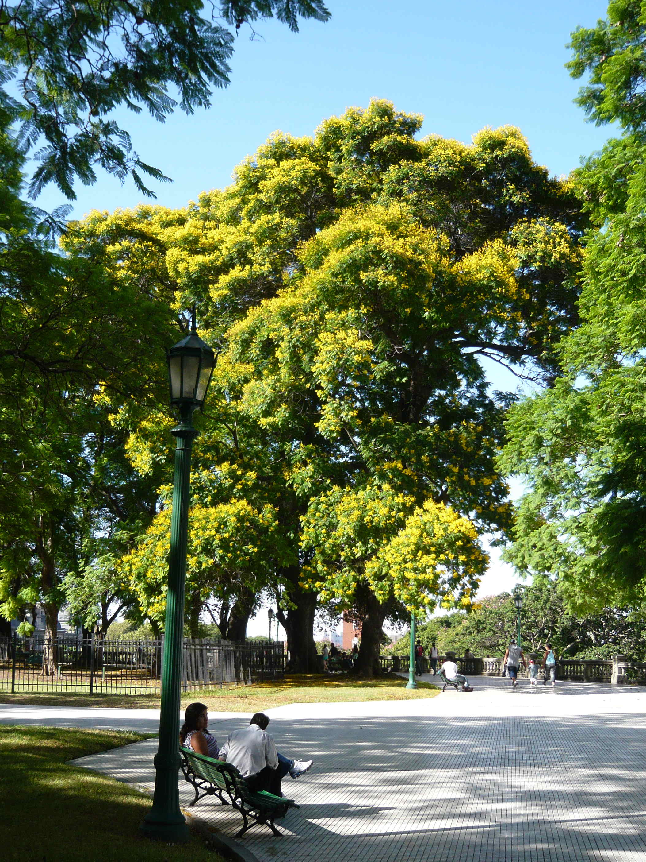 Mature Ibirá Pitá (Peltophorum) in Plaza San Martín, Buenos Aires